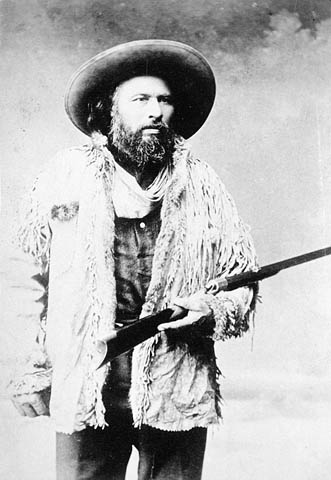 Gabriel Dumont (1837-1906), Military Commander of the Métis during the Northwest Rebellion of 1885 Regarding copyright - Quotation "CONSULTATION/REPRODUCTION:Graphics: photos Restrictions on access: Nil USE/REPRODUCTION:Restrictions on use/reproduction: Nil Copyright: expired" Credit: Strong/Library and Archives Canada/PA-178147 Retrieved from